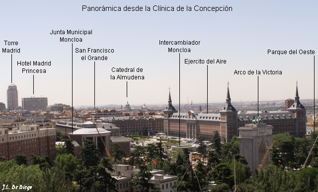 Skyline of Madrid, from Concepción Hospital. Madrid, Spain